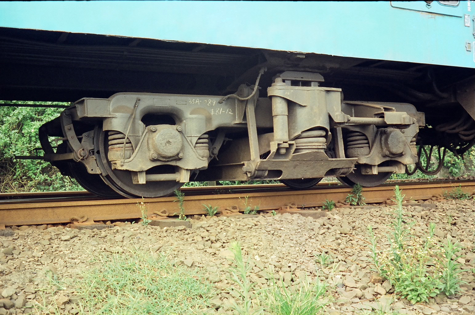 TRA Bogie TR35 type at coach SPK32700